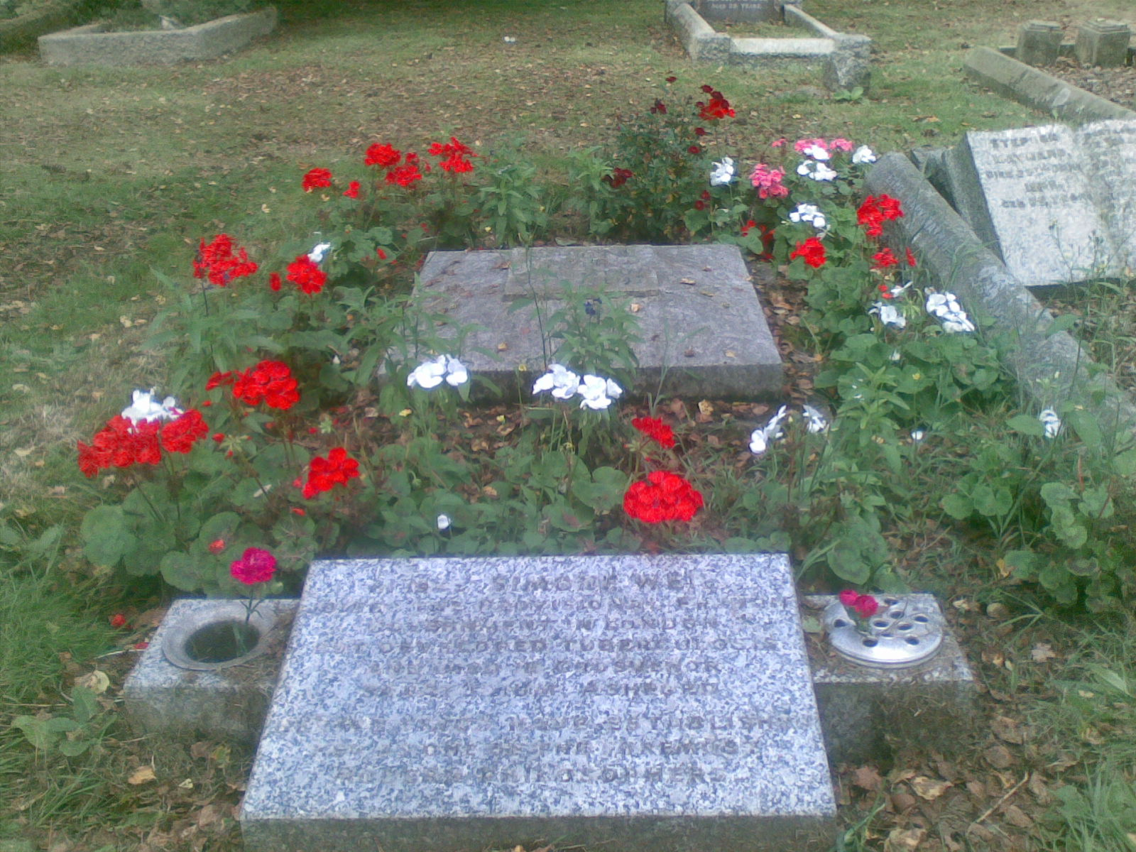 The grave of Simone Weil. Pic taken Aug 2012.